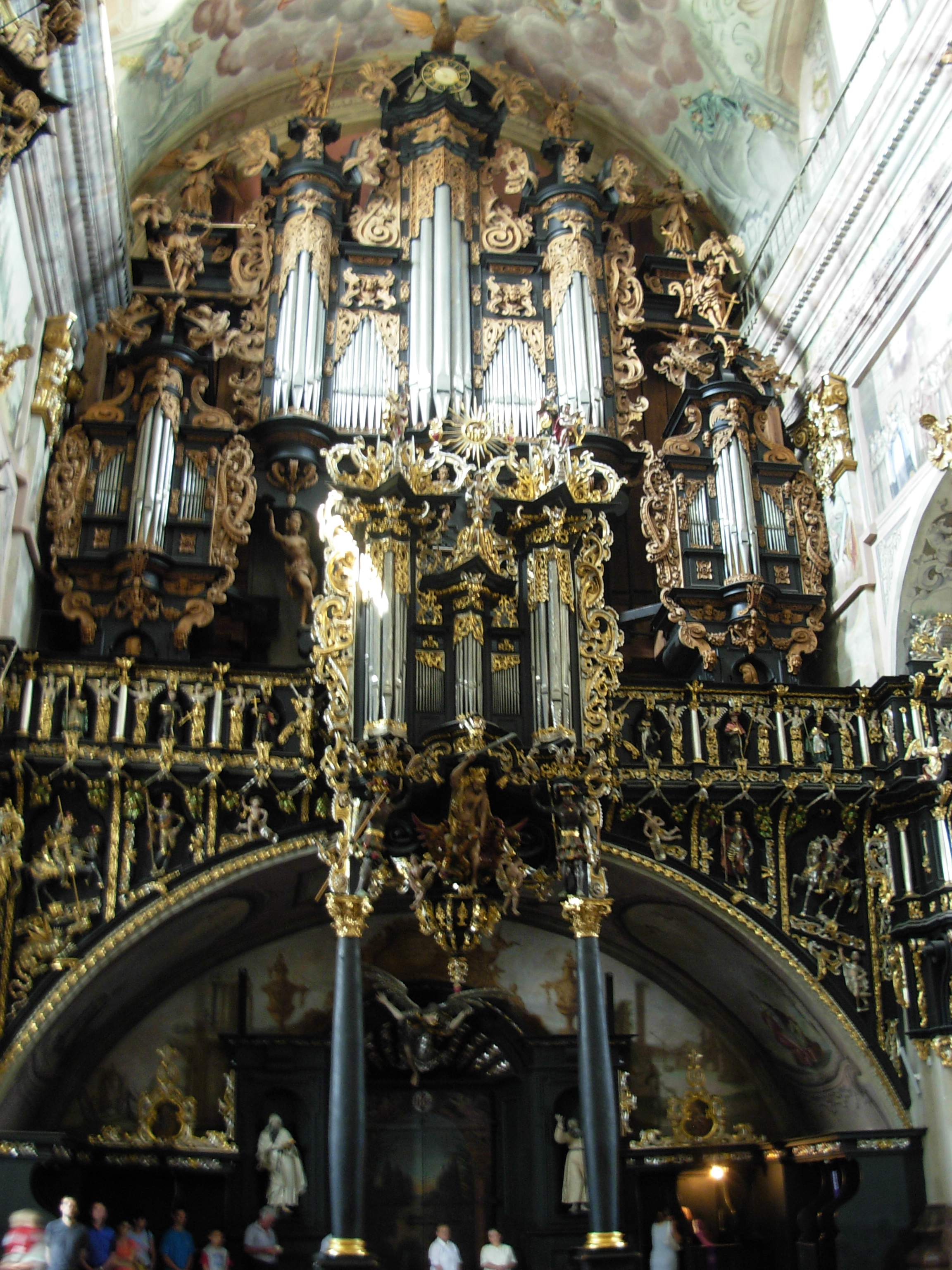 Bernardine Monastery in Leżajsk, Poland.